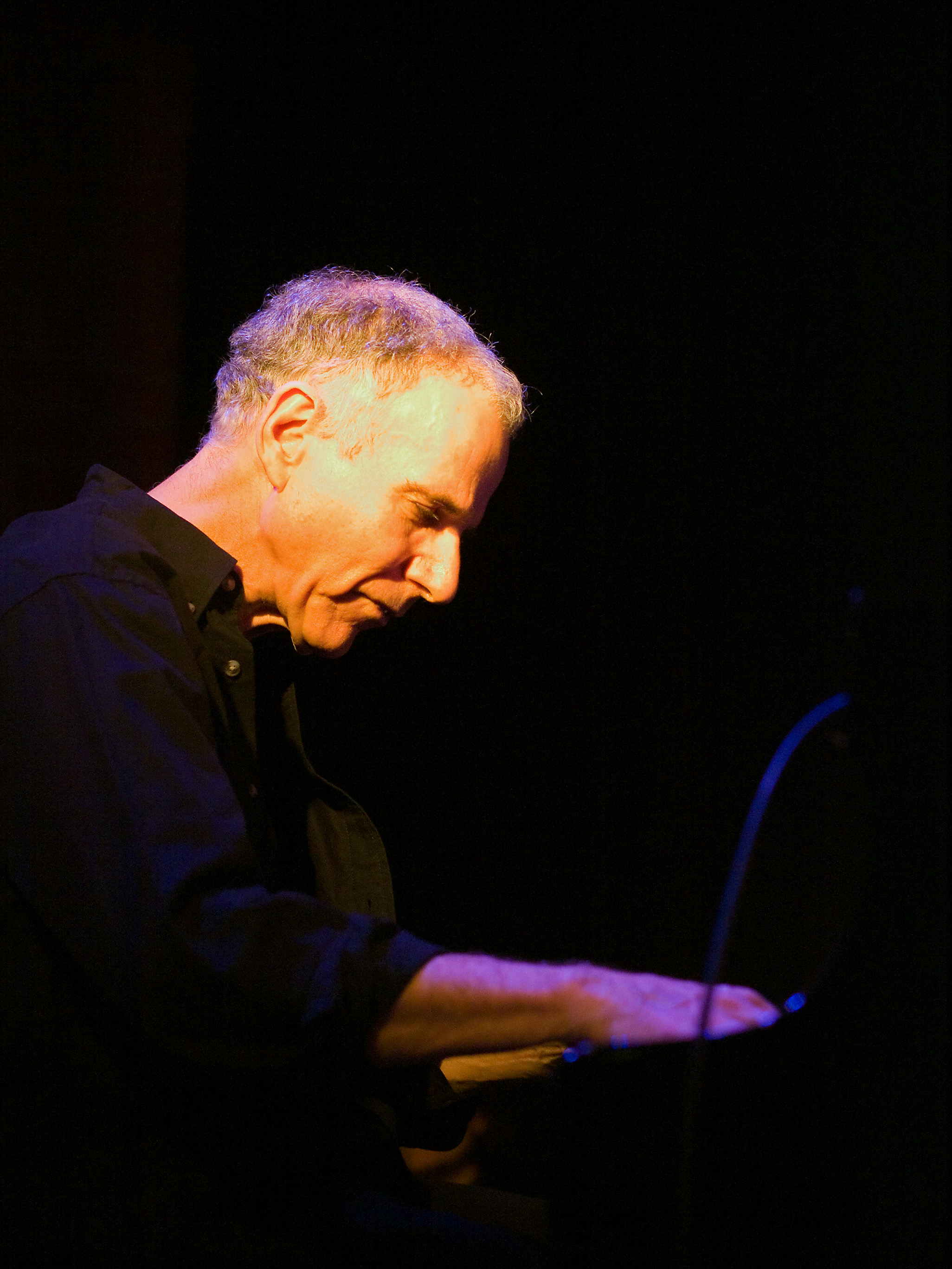 Marc Copland, jazz pianist; Picture taken in Jazz Club Unterfahrt, Munich/Bavaria